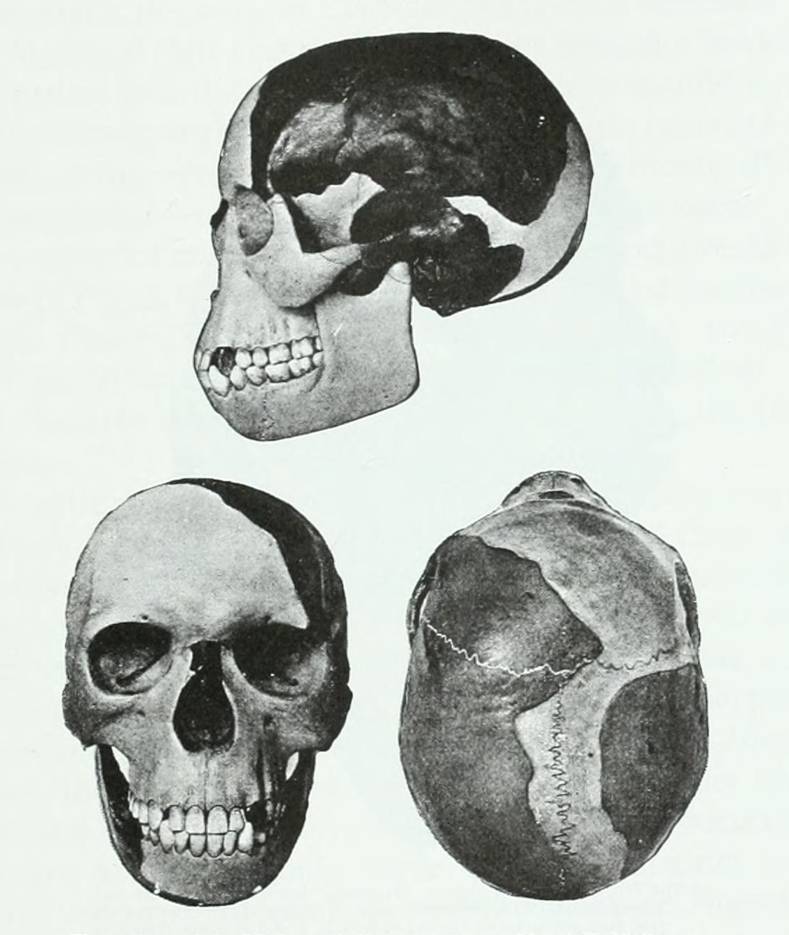 Three views of the reconstruction of the "Piltdown Man" by James H. McGregor original text: Three views of the Piltdown skull as reconstructed by J. H. McGregor, 1915. This restoration includes the nasal bones and canine tooth, which were not known at the time of Smith Woodward's reconstruction of 1913. One-quarter life size. Copyright, 1915. 1918, by Charles Scribners Sons.